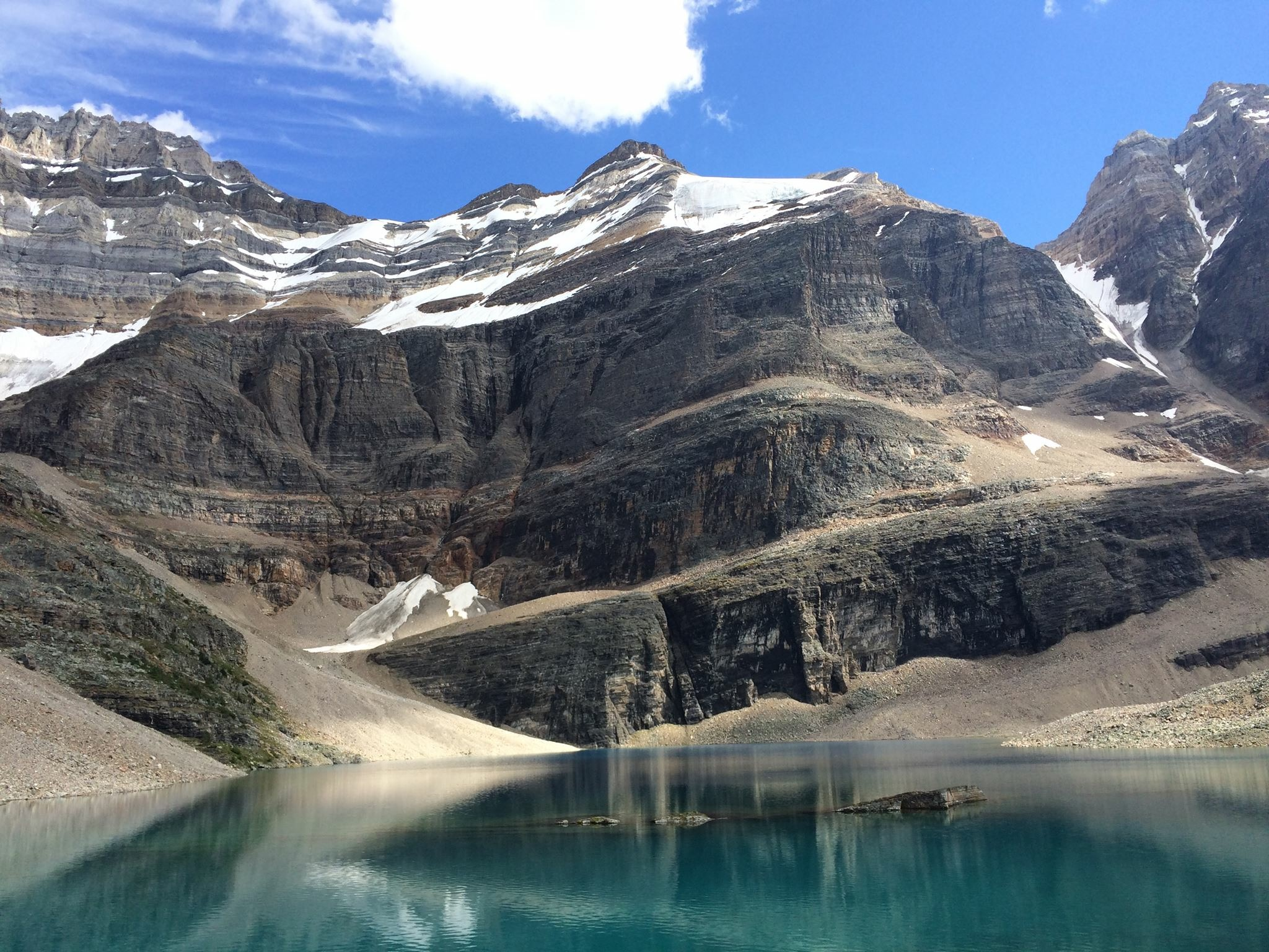 Beautiful Lake Oesa, Yoho National Park, Lake Ohara Area This photo was taken in a protected area in Canada, Wikidata item Yoho National Park (Q828404)